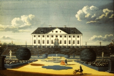 Sorgenfri Slot north of Copenhagen, Denmark